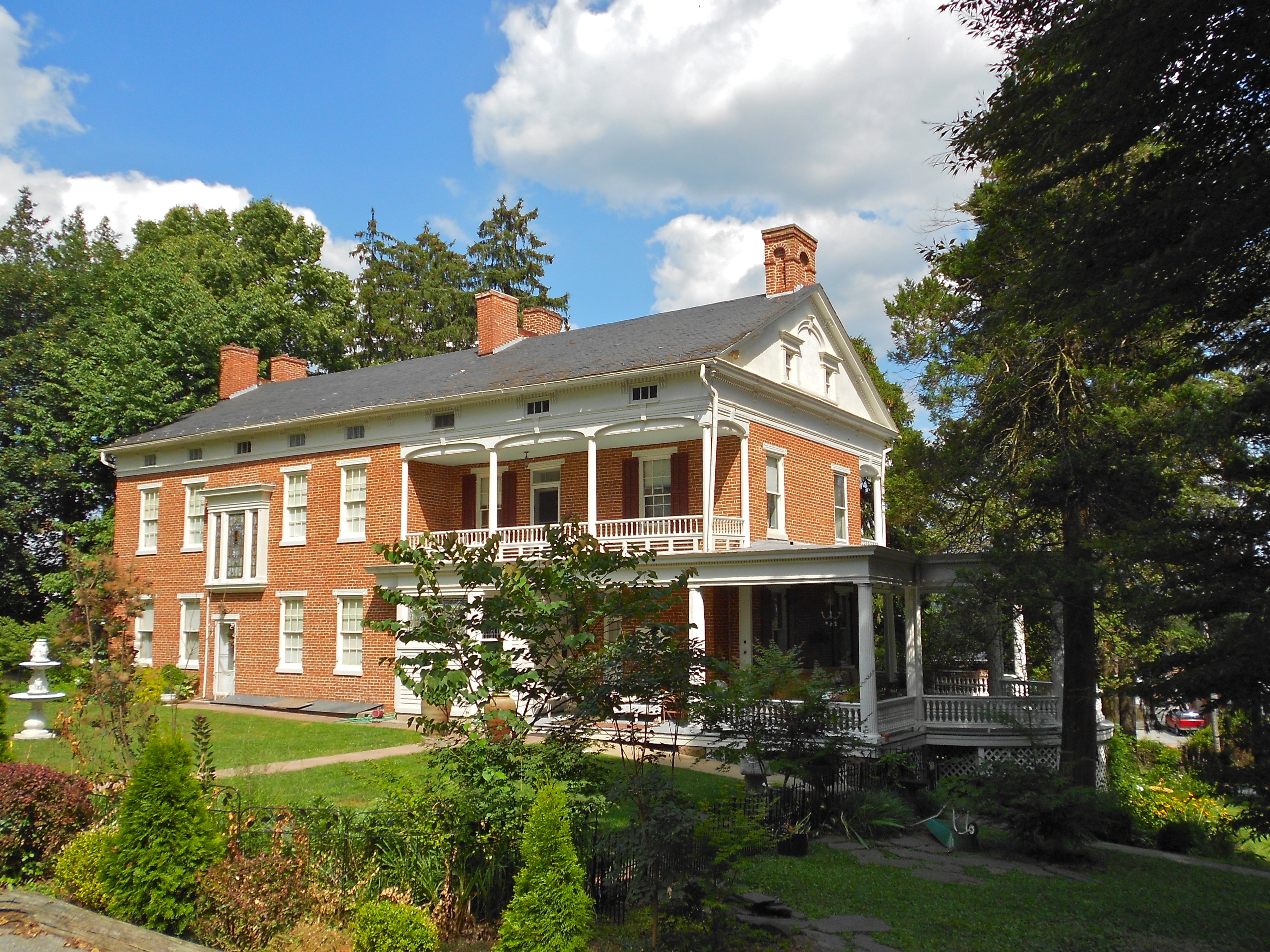 Emig Mansion on the NRHP since September 7, 1984, at 3342 North George Street in Emigsville, Manchester Township, York County, Pennsylvania.